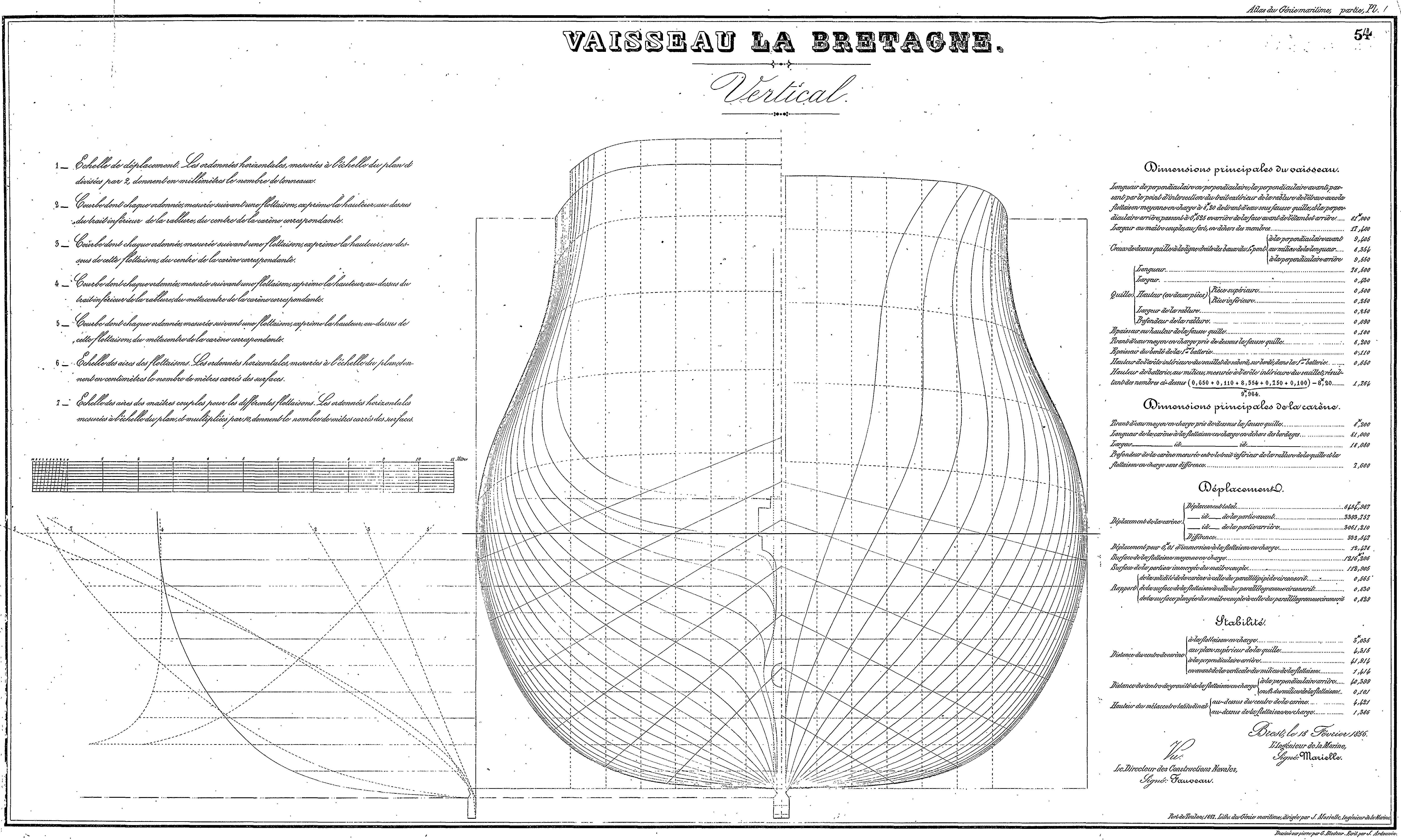 Bretagne Stern Bow lines